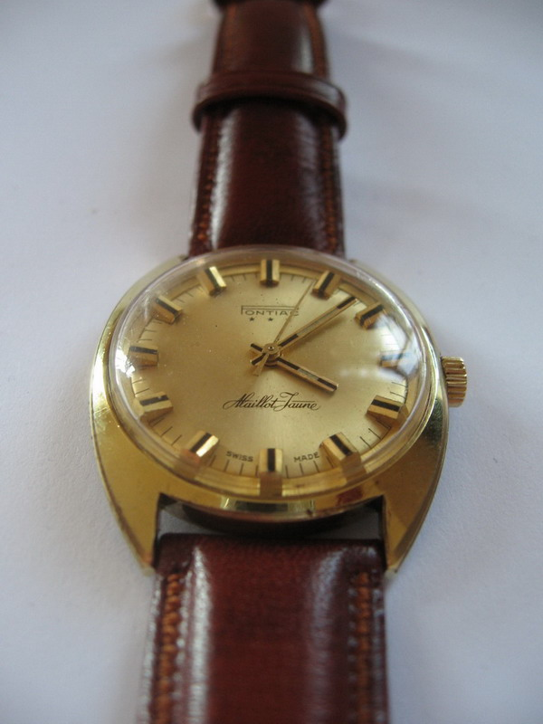 Pontiac Maillot Jaune wristwatch. gold wristwatch. watch.